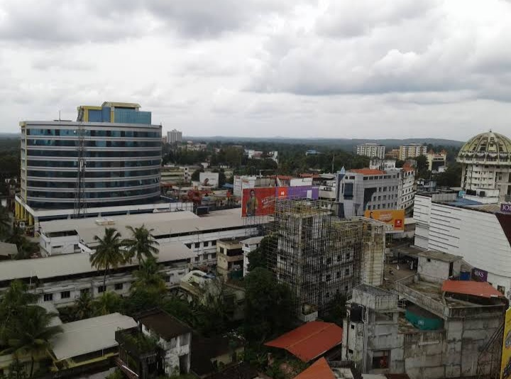 Thiruvalla View